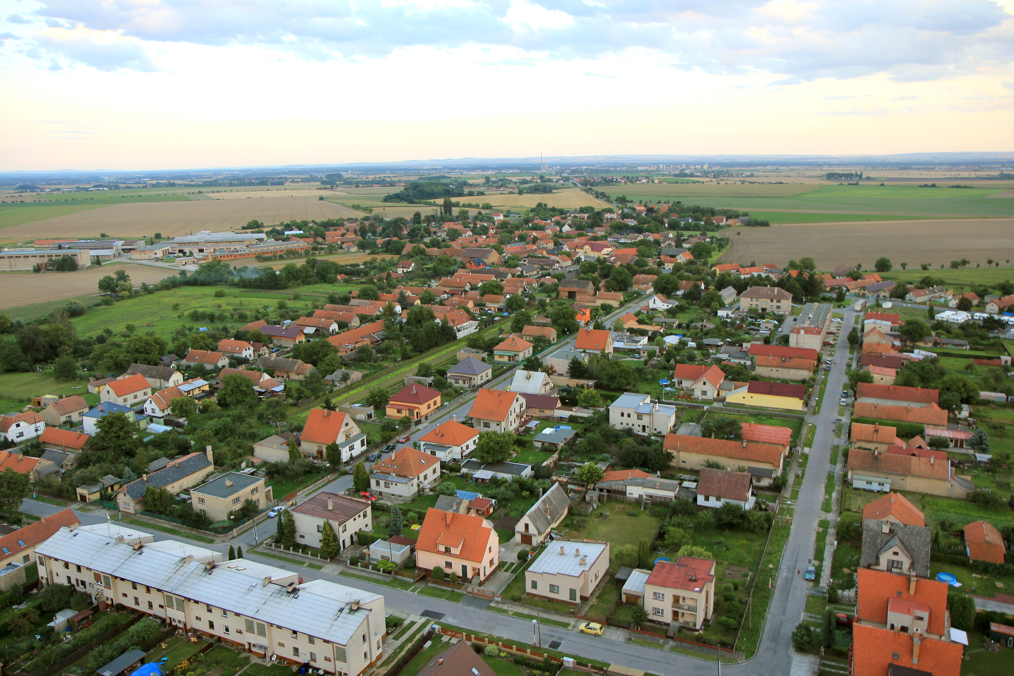 Aerial view of Krchleby village, Czech Republic